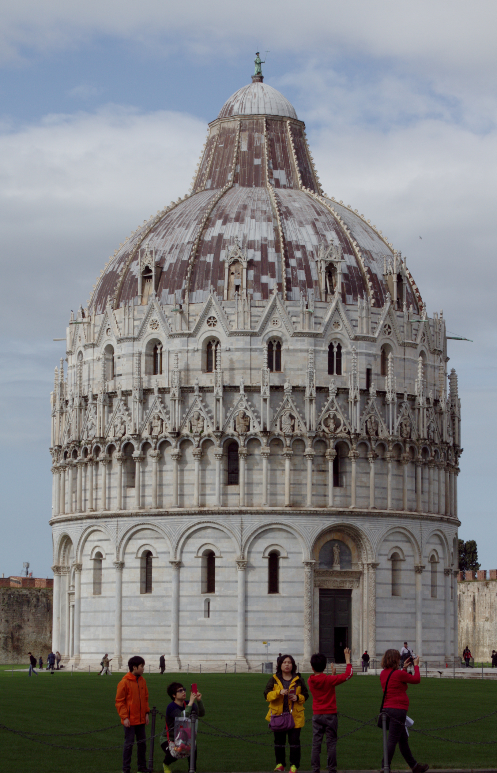 Baptistry